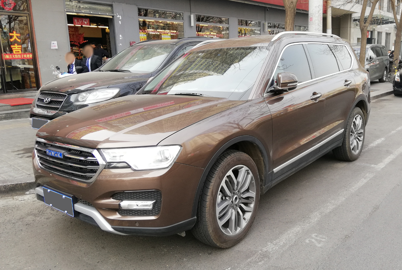 Haval H7L Blue photographed in Beijing, China.